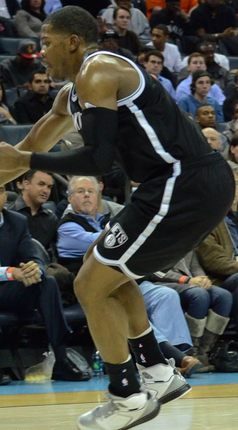 Joe Johnson of the Brooklyn Nets